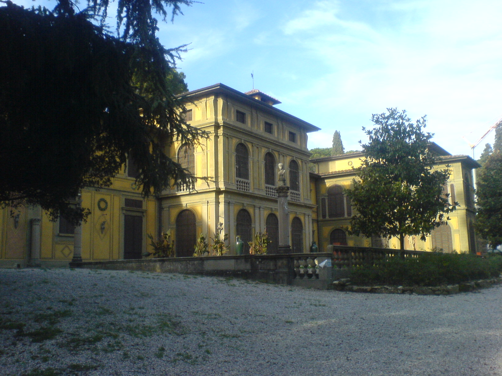 Stibbert Museum in Florence